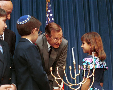 President George H. W. Bush speaking with children at 1991 White House Staff Hanukkah Menorah lighting. Photo owned by National Archives and Records Administration (NARA), public domain.